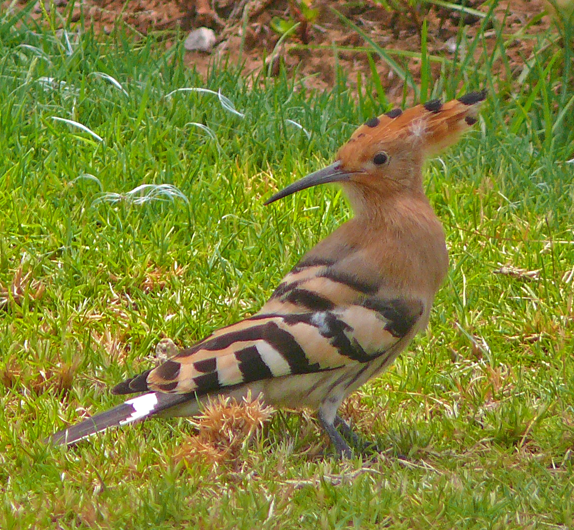 Upupa epops in Ramat Gan National Park, Israel